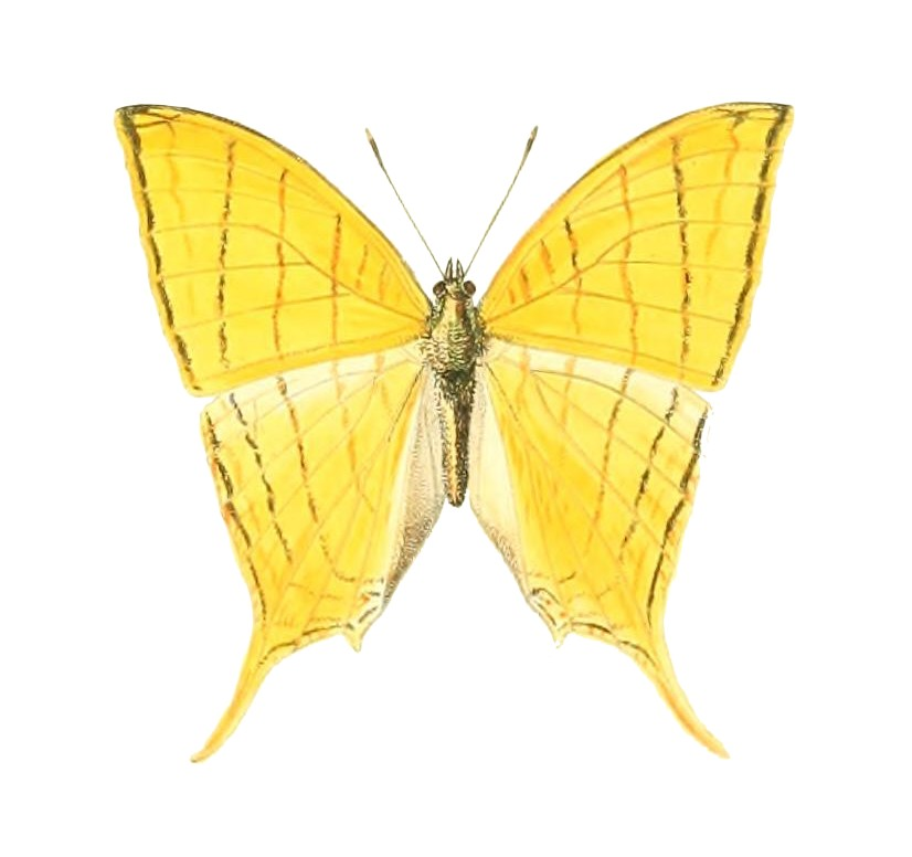 Nymphalis harmonia = Marpesia harmonia